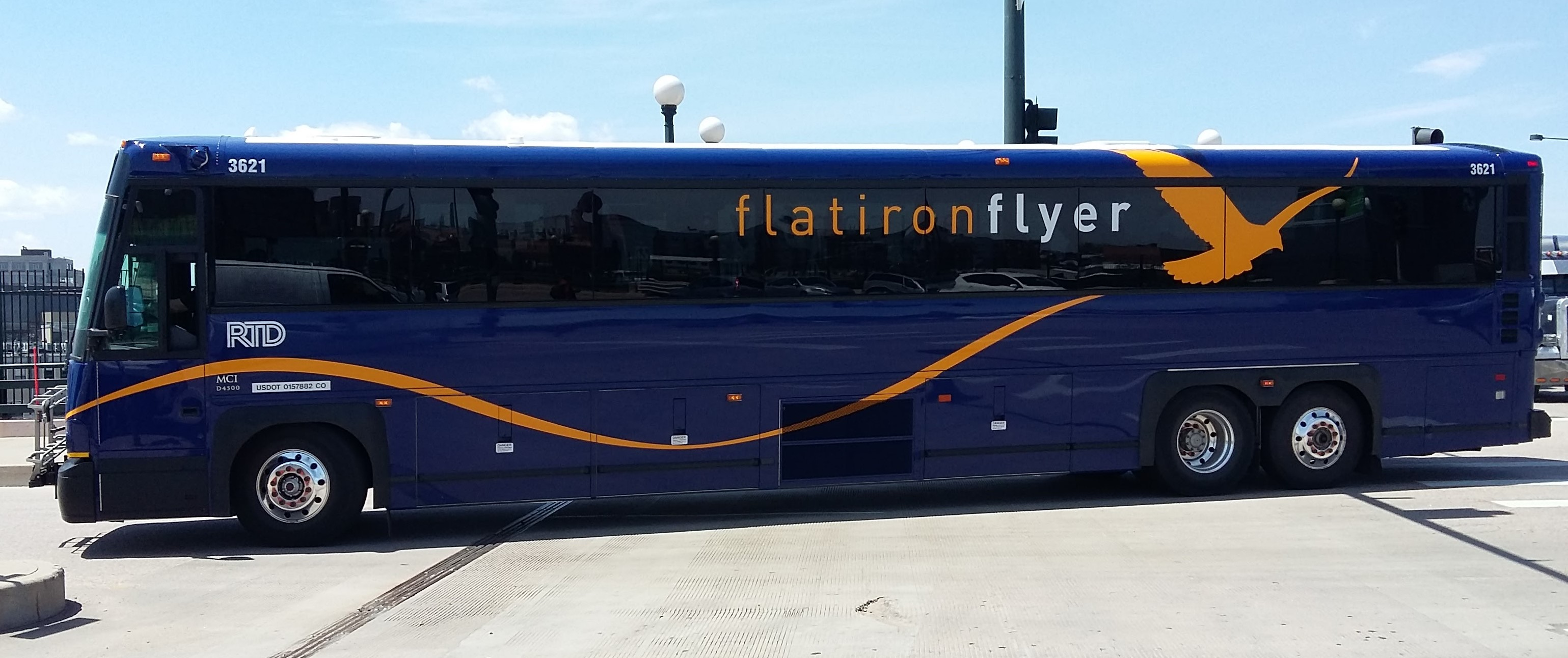 Flatiron Flyer bus 3621 at Wewatta Street and Park Ave West in Denver, Colorado